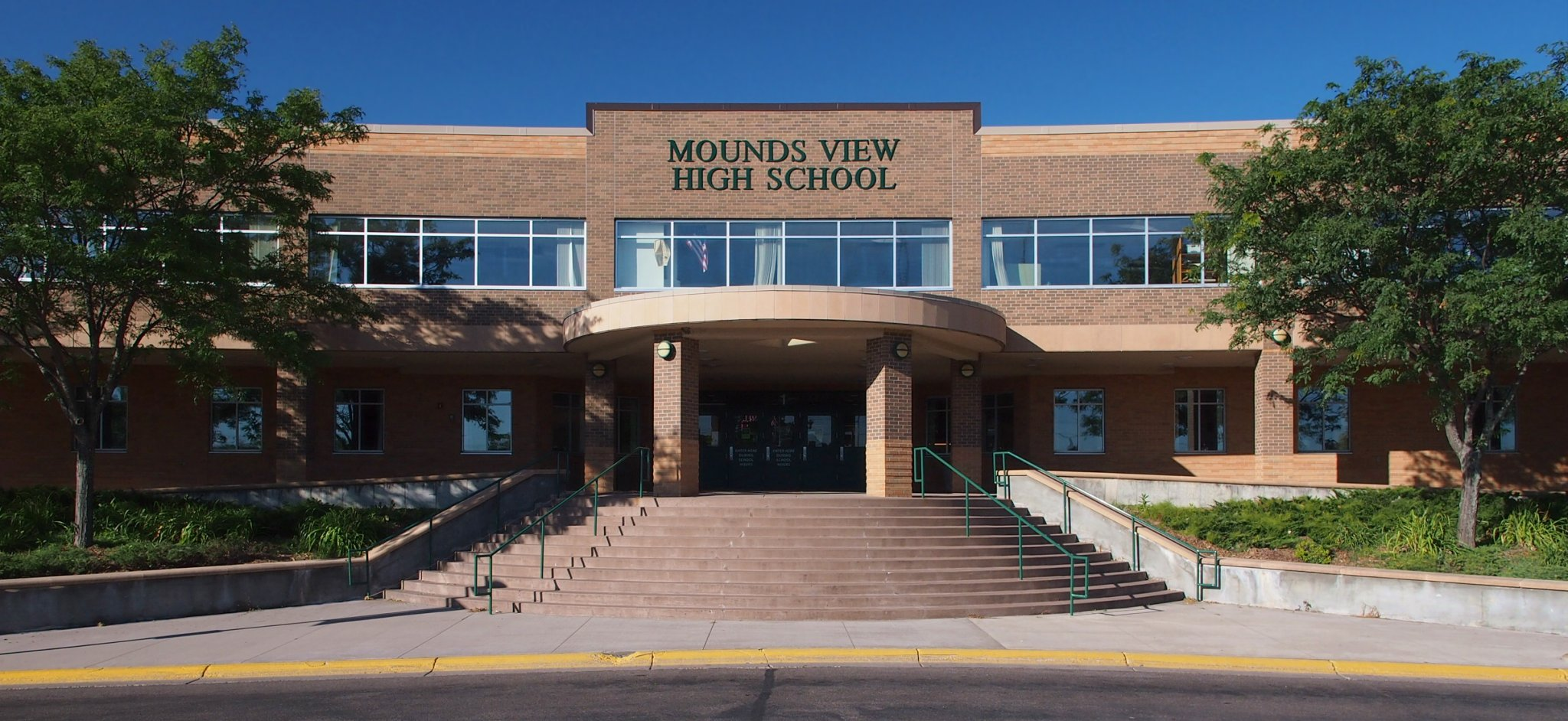 Mounds View High School, 1900 Lake Valentine Road, Arden Hills, Minnesota, USA. Viewed from the northeast.